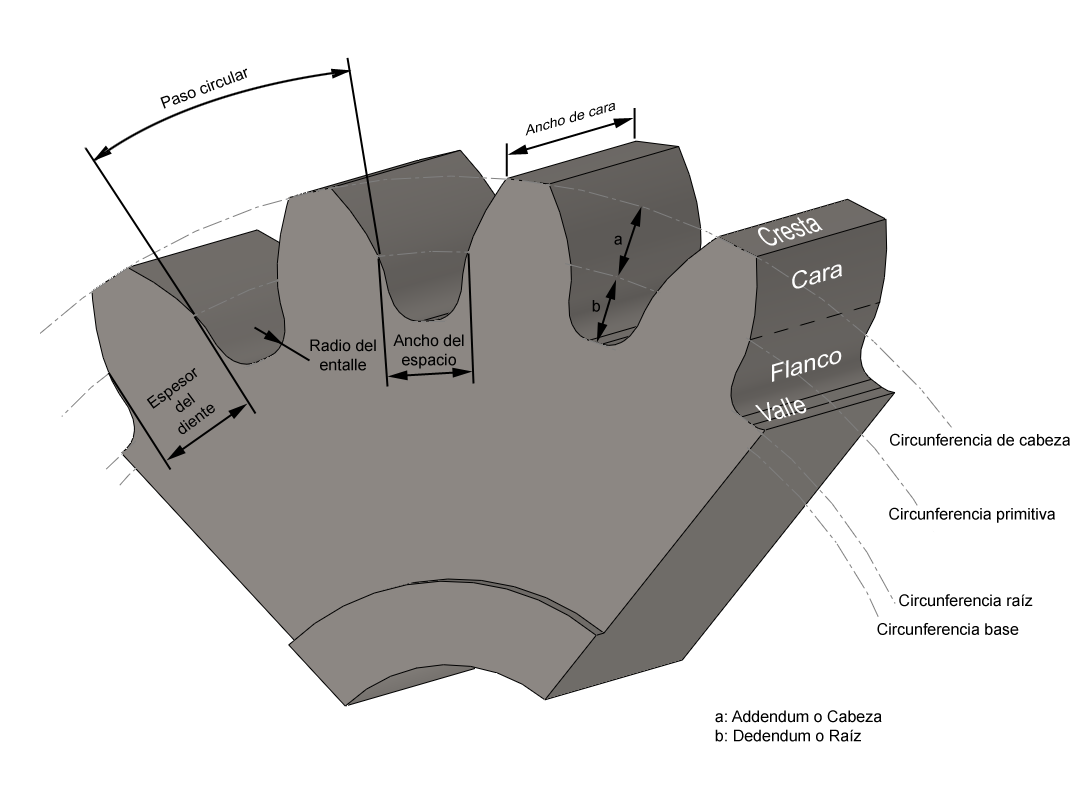 A description of some parts of a gear.